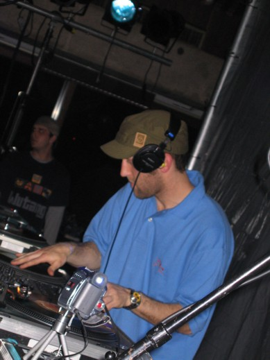 taken by me, at a live performance at Haverford College. Rapper Dos-Noun can be seen in the wings of the stage.